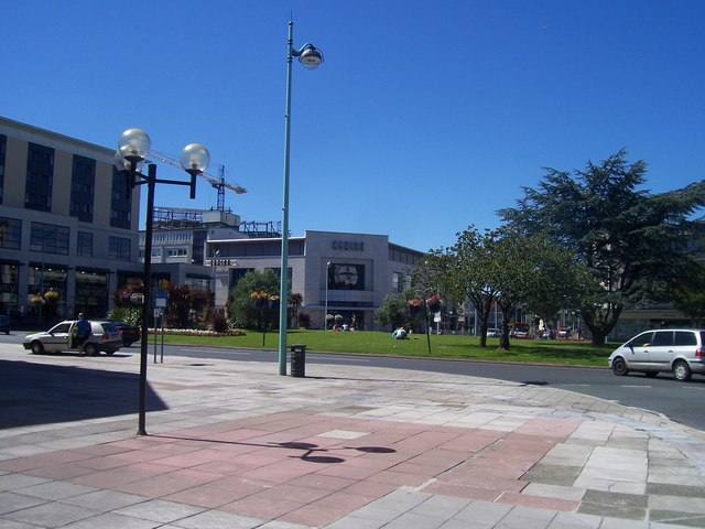 Plymouth : Derry's Cross Derry's Cross roundabout. A casino is opposite and also Varsity.